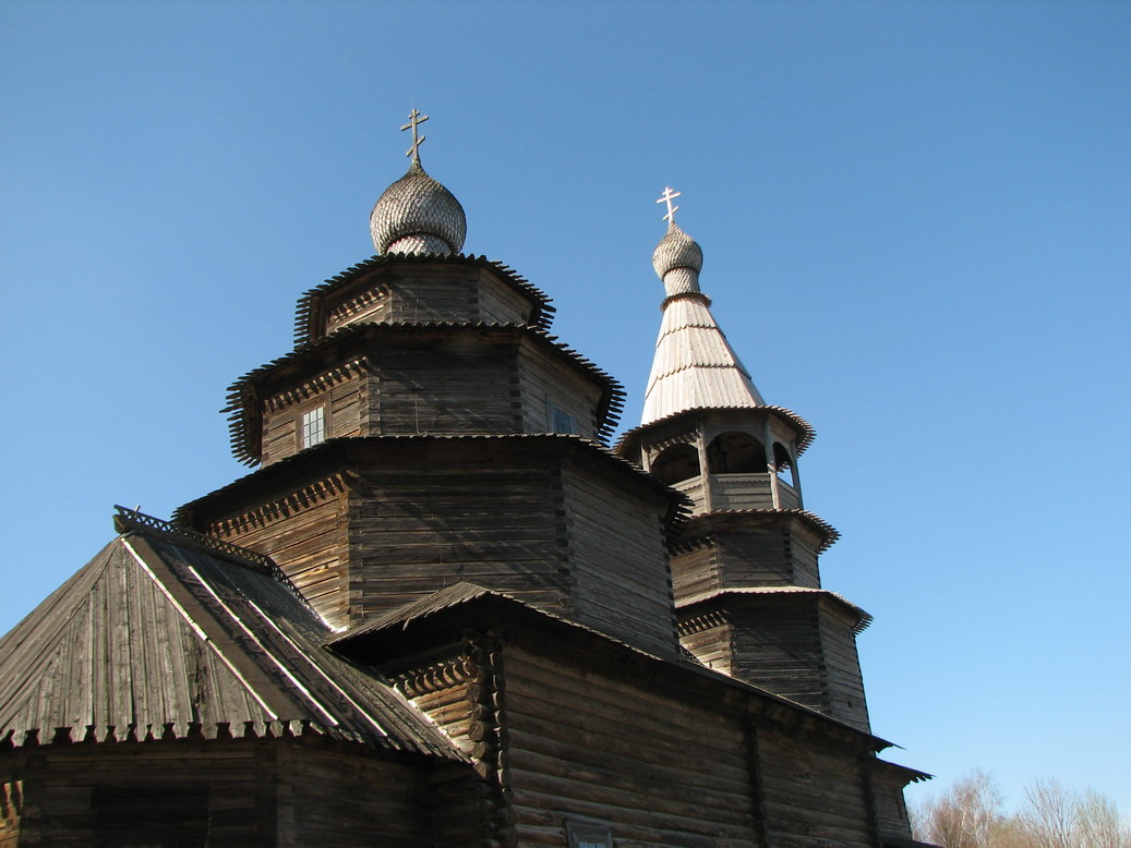 Wood buildings museum in Vitoslavlicy